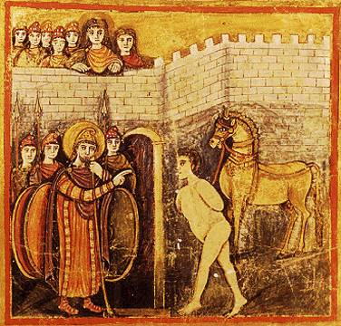 Miniature of the Trojan Horse, from the Vergilius Romanus, a 4th-century illuminated manuscript of Virgil's Aeneid. From [1]